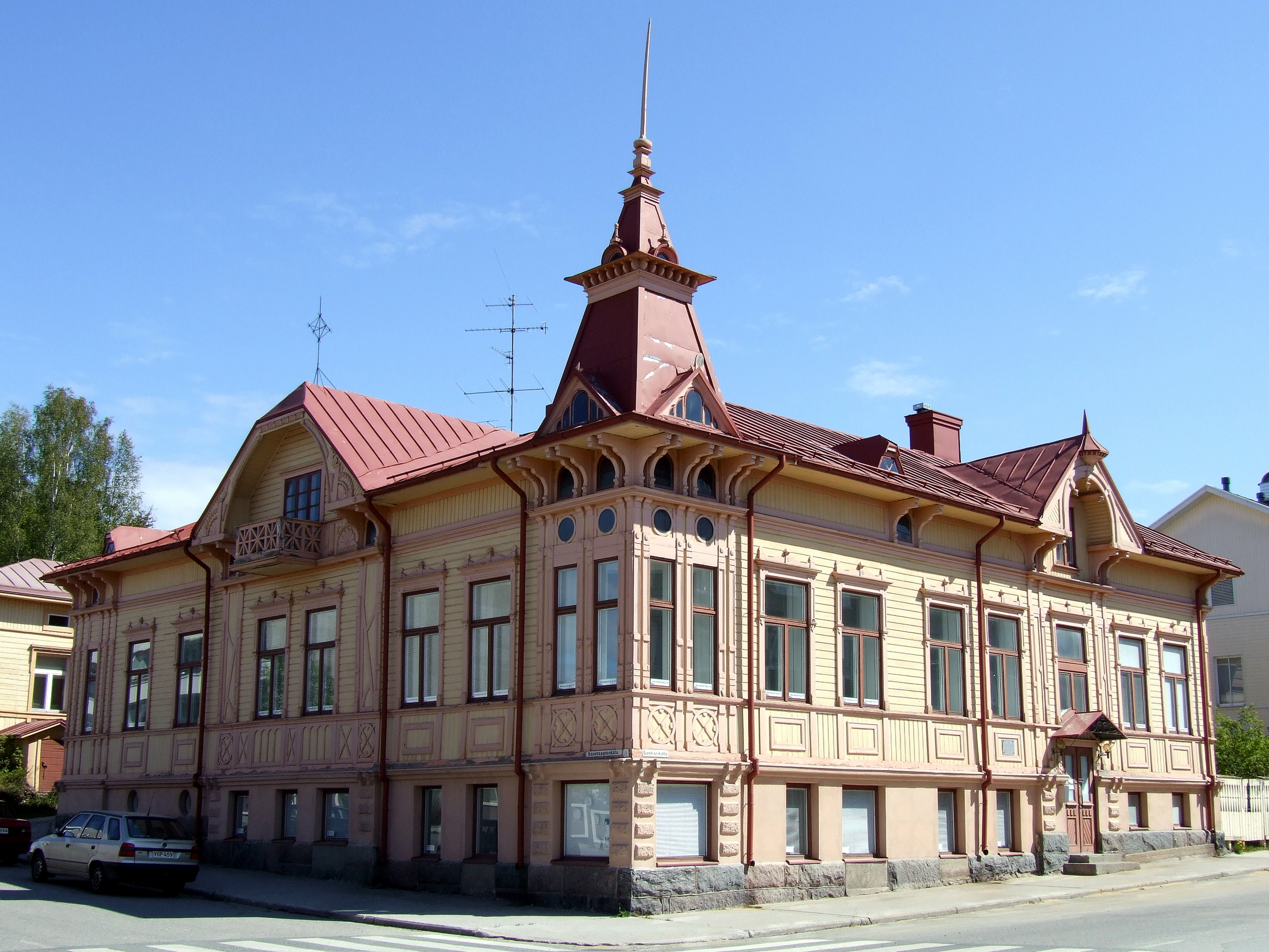 Junnelius house in Kemi. Built in 1901.